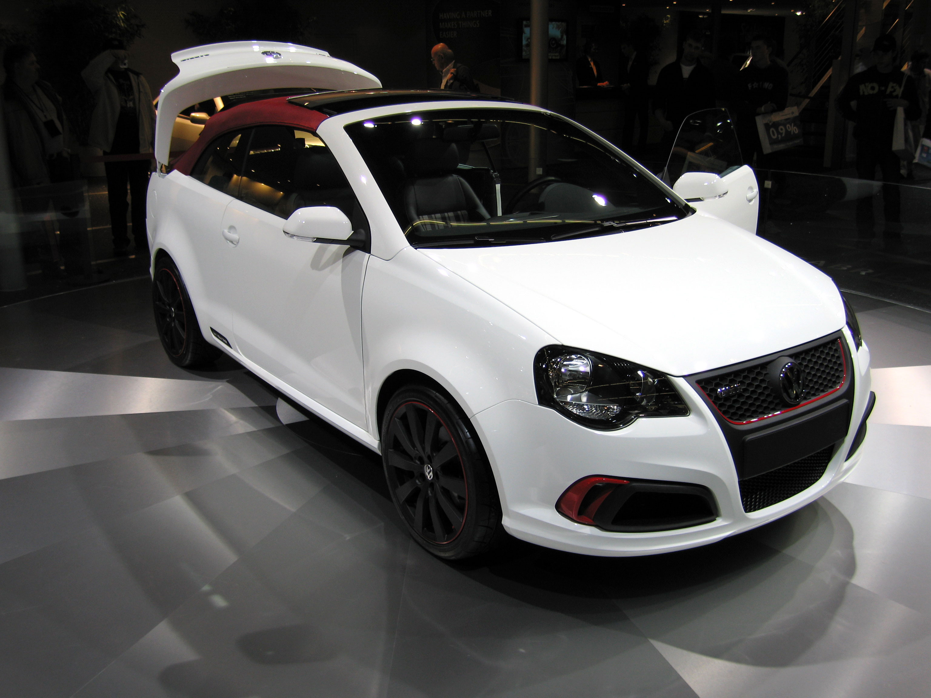 Karmann VW Polo IV GTI (9N3) Convertible at the IAA 2007